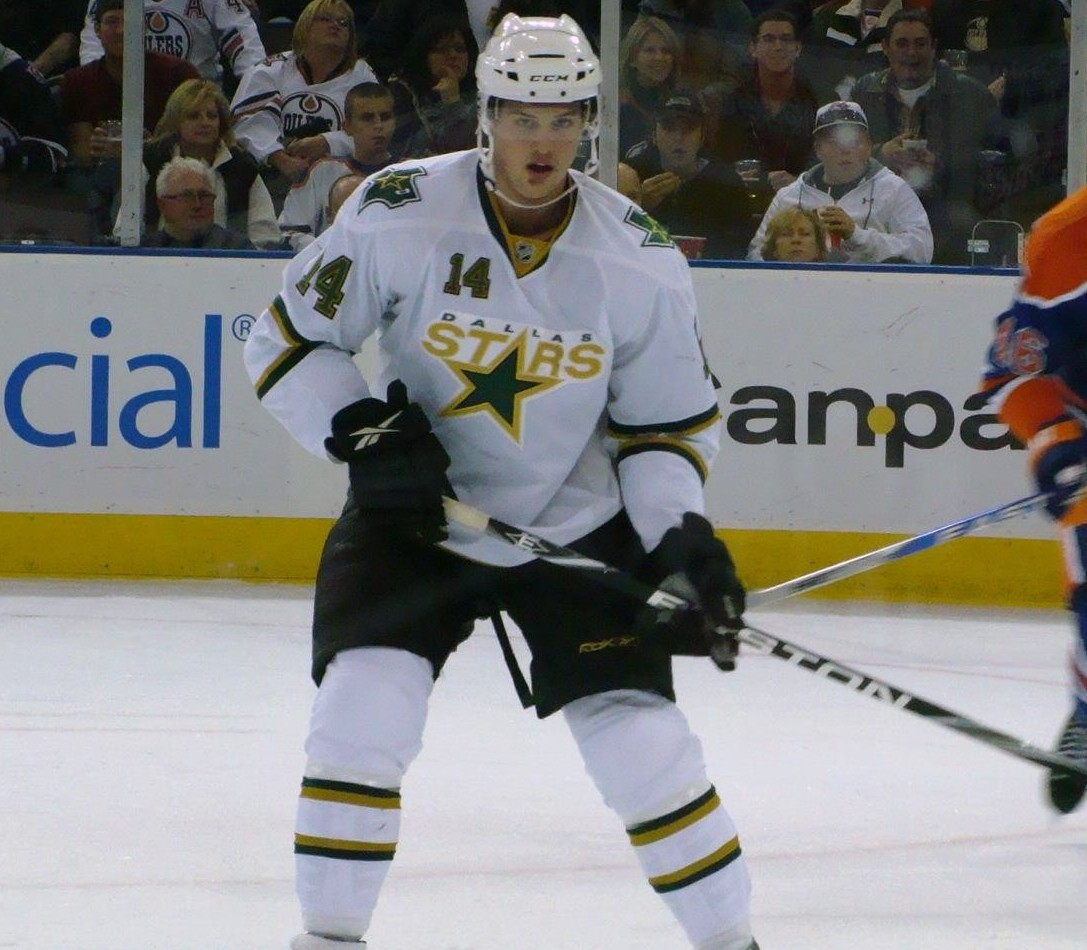 NHL Hockey Players Edmonton vs Dallas. 2009/10 season.